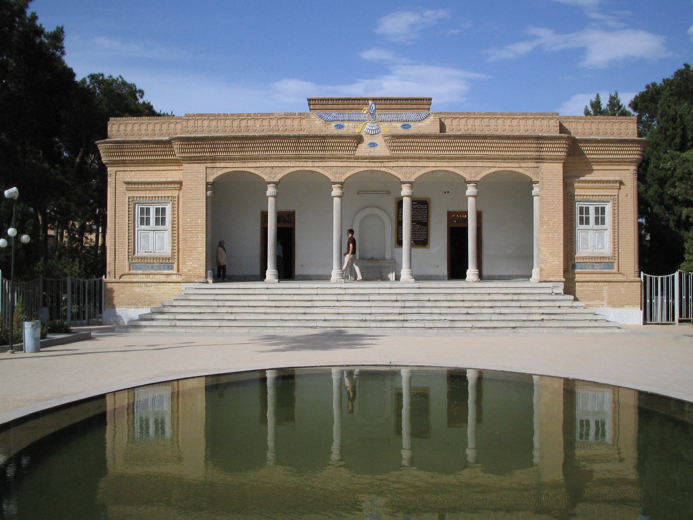 Ateshkadeh (Zoroastrian temple of fire) in Yazd, Iran.